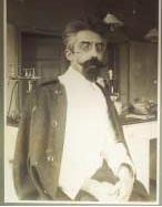 Jose Juan Verocay